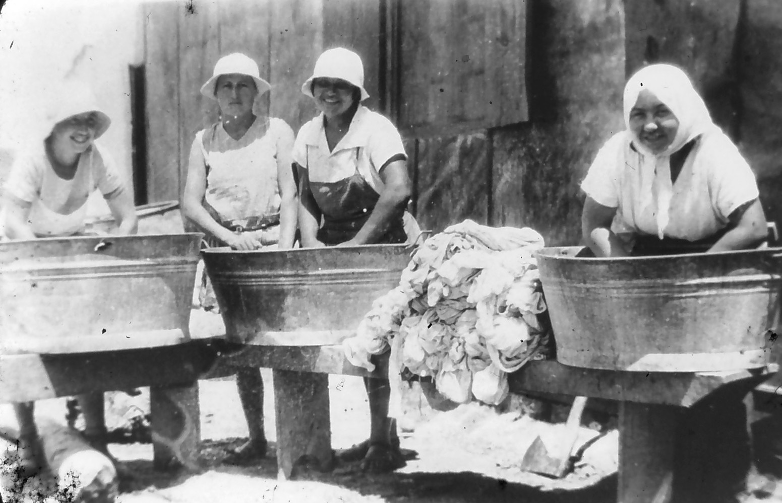 Binyamina - laundresses 1930, Settlements in Israel